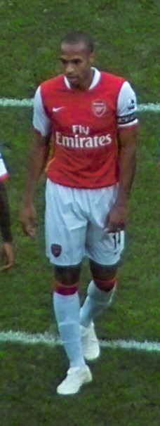 Thierry Henry, playing for Arsenal against Everton at the Emirates Stadium.